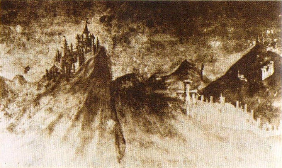 Masolino da Panicale's painting which is commonly regarded as the first depiction of the castle of Veszprém